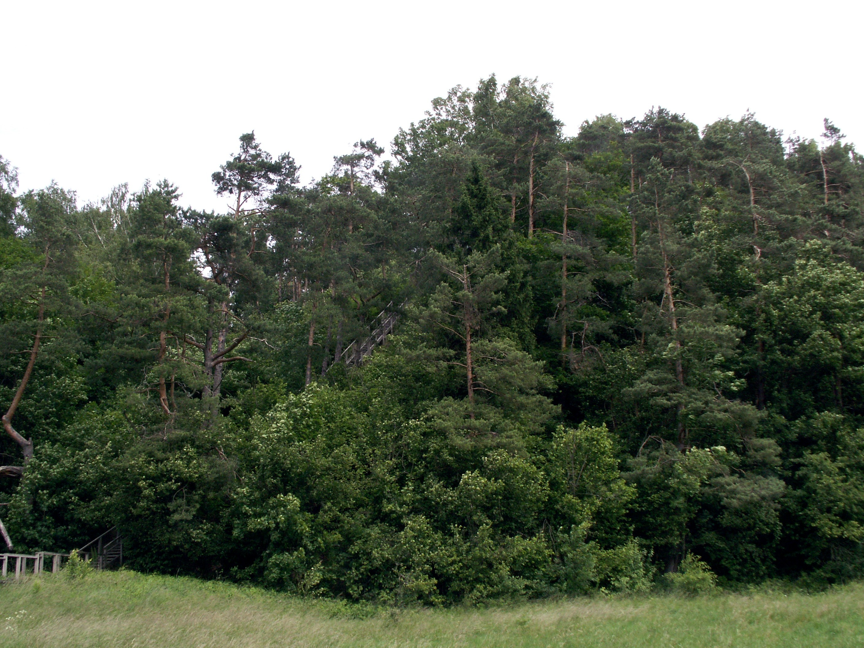 Rambynas hill, Lithuania